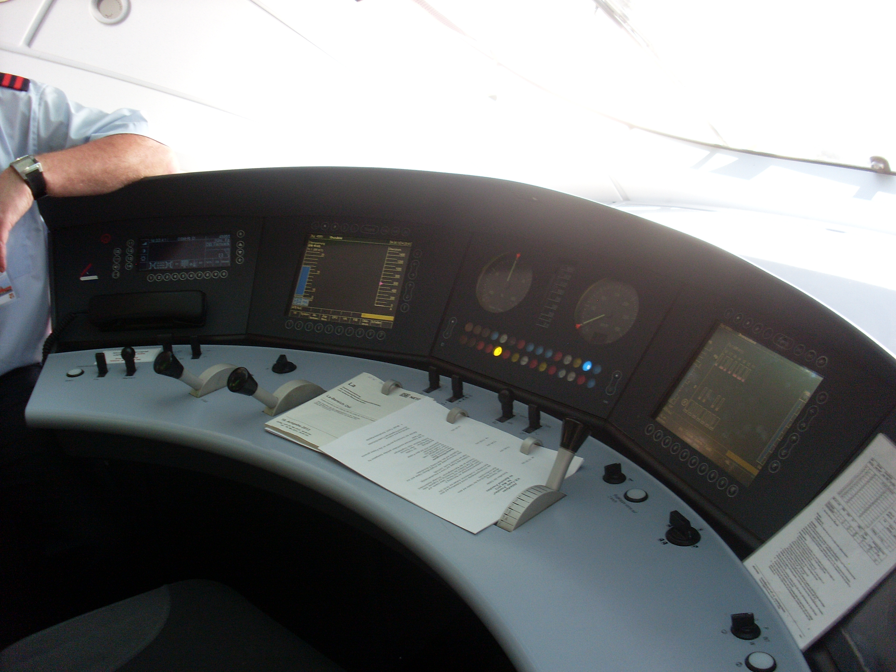 Cab of an ICE T in Prenzlau.